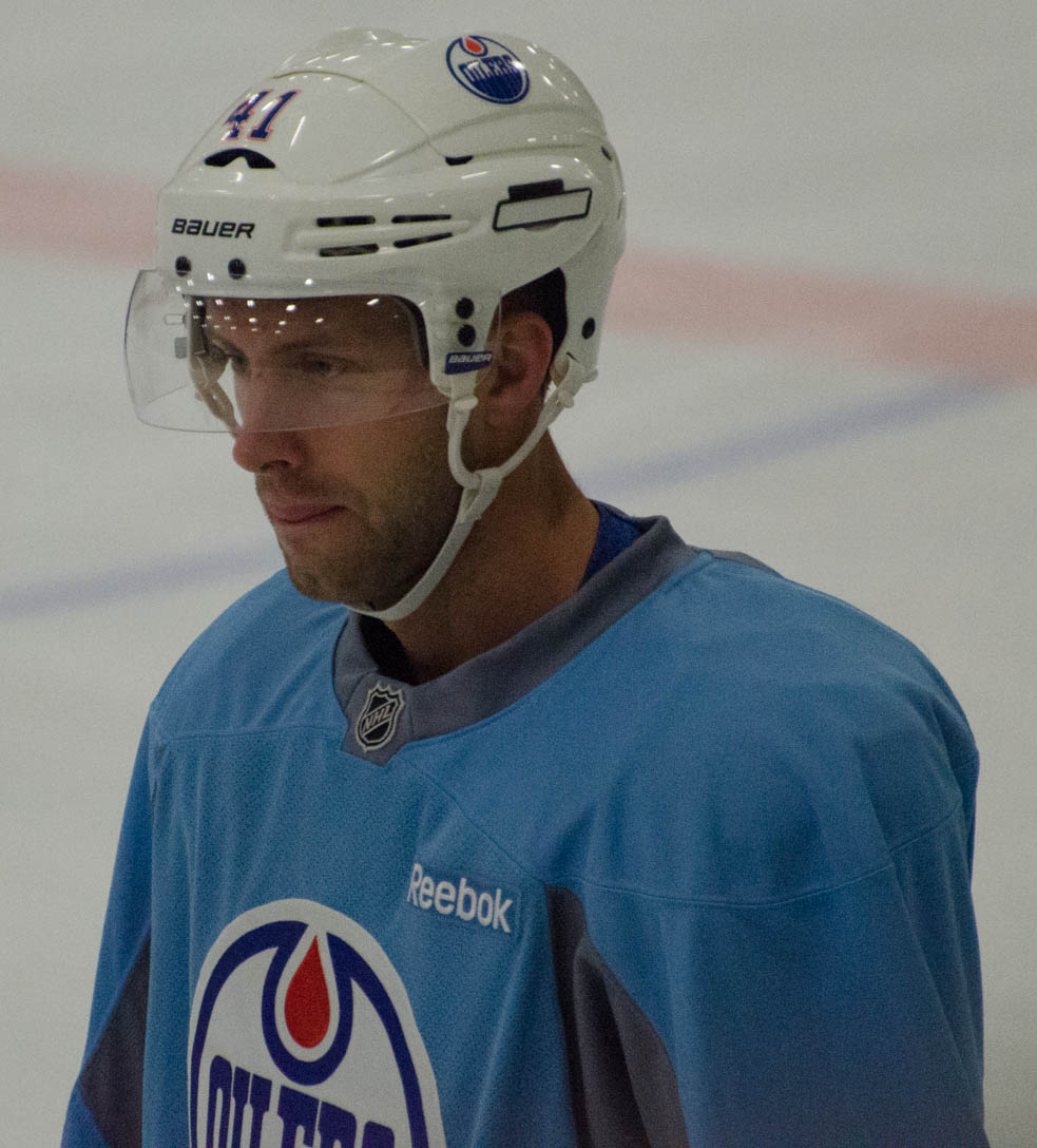 Will Acton at an Edmonton Oilers practice, Sept. 27, 2014